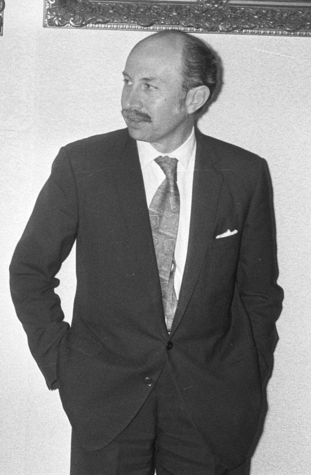 José Miguez Bonino (Kampen, 1984)